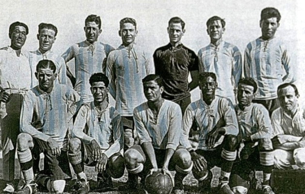 Selección Argentina 1925